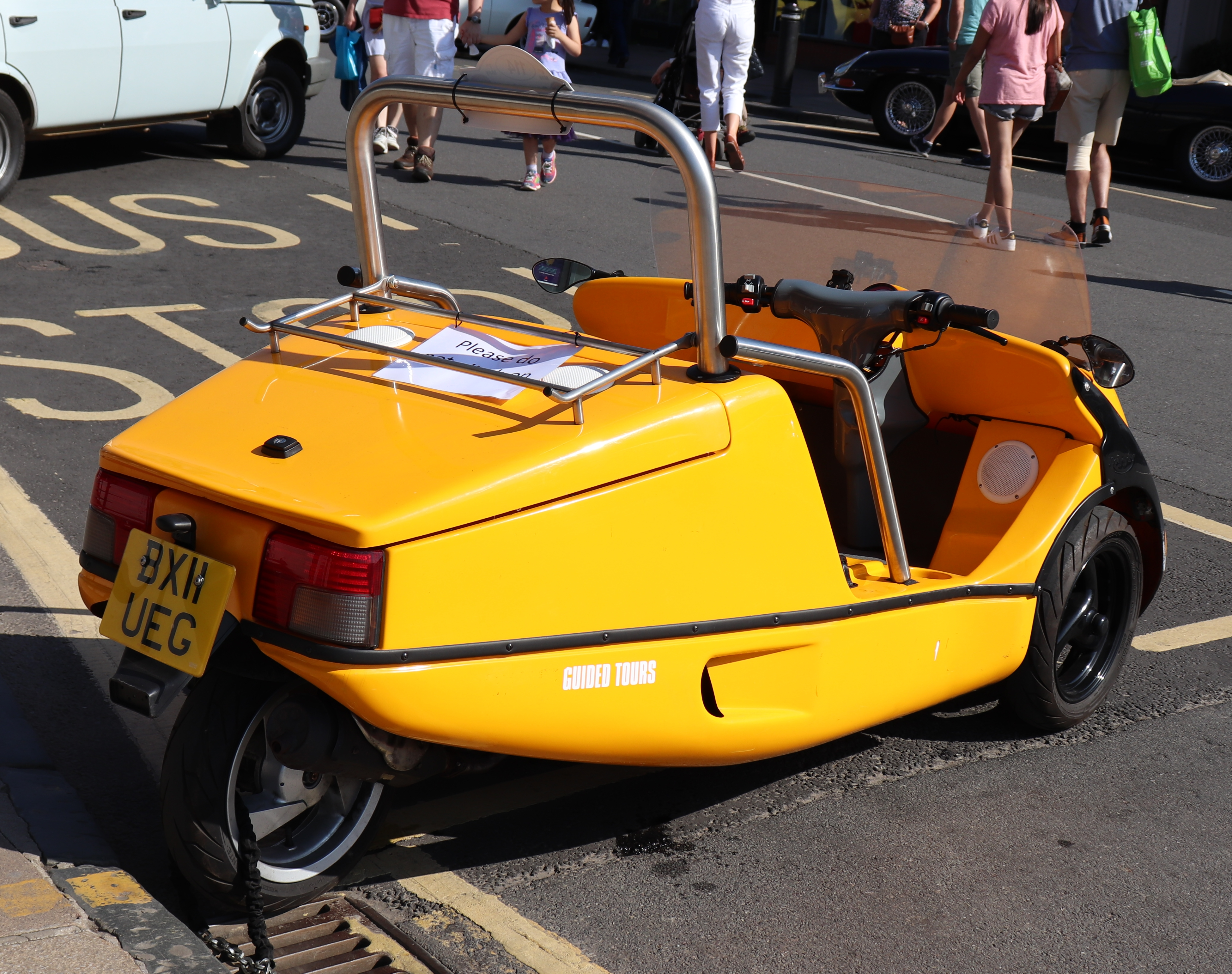 2011 Trigger 50 Mk1 Rear Taken at the Stratford Festival of Motoring 2018